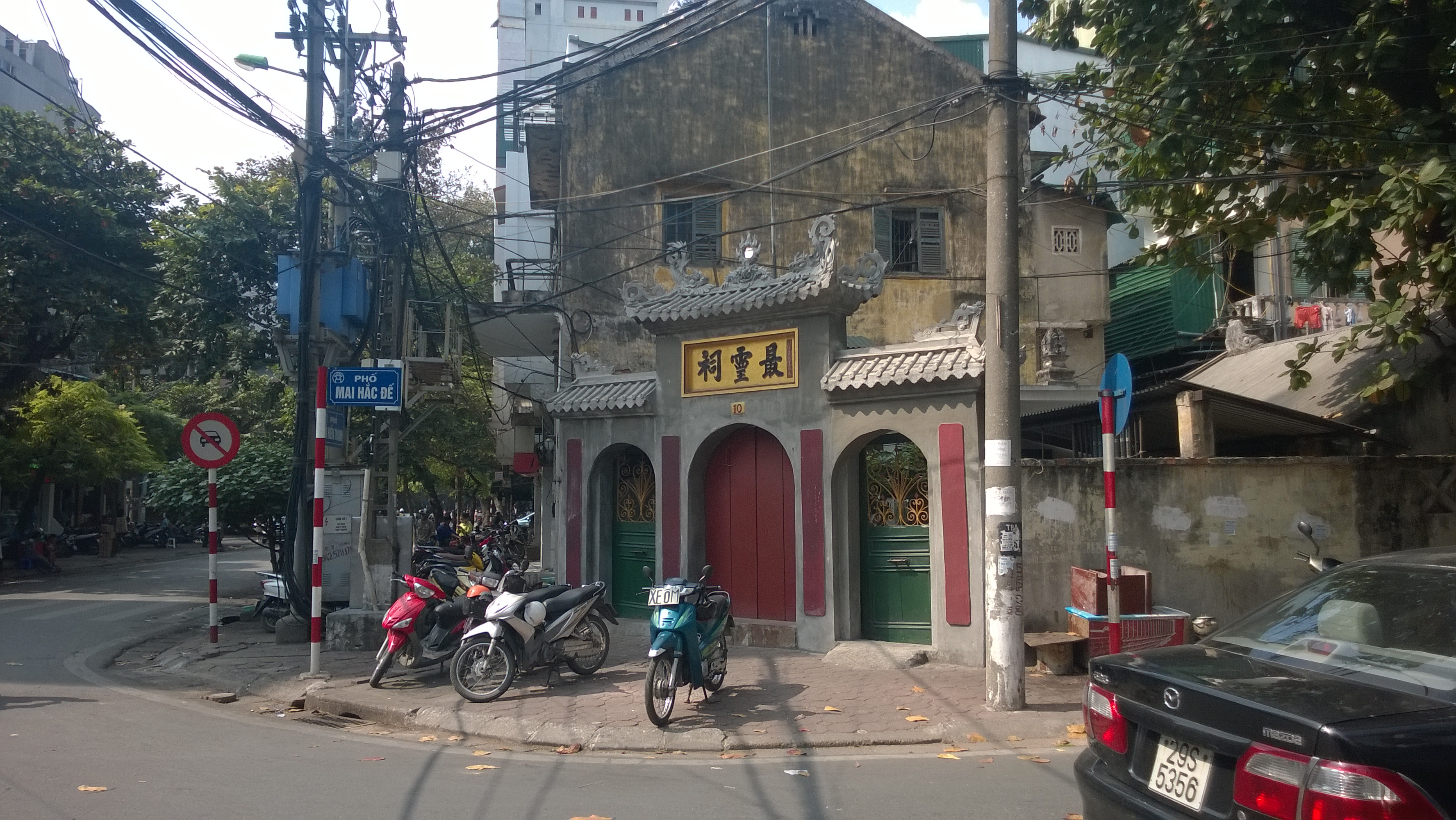 The Mai Hac De temple gate in 2014.